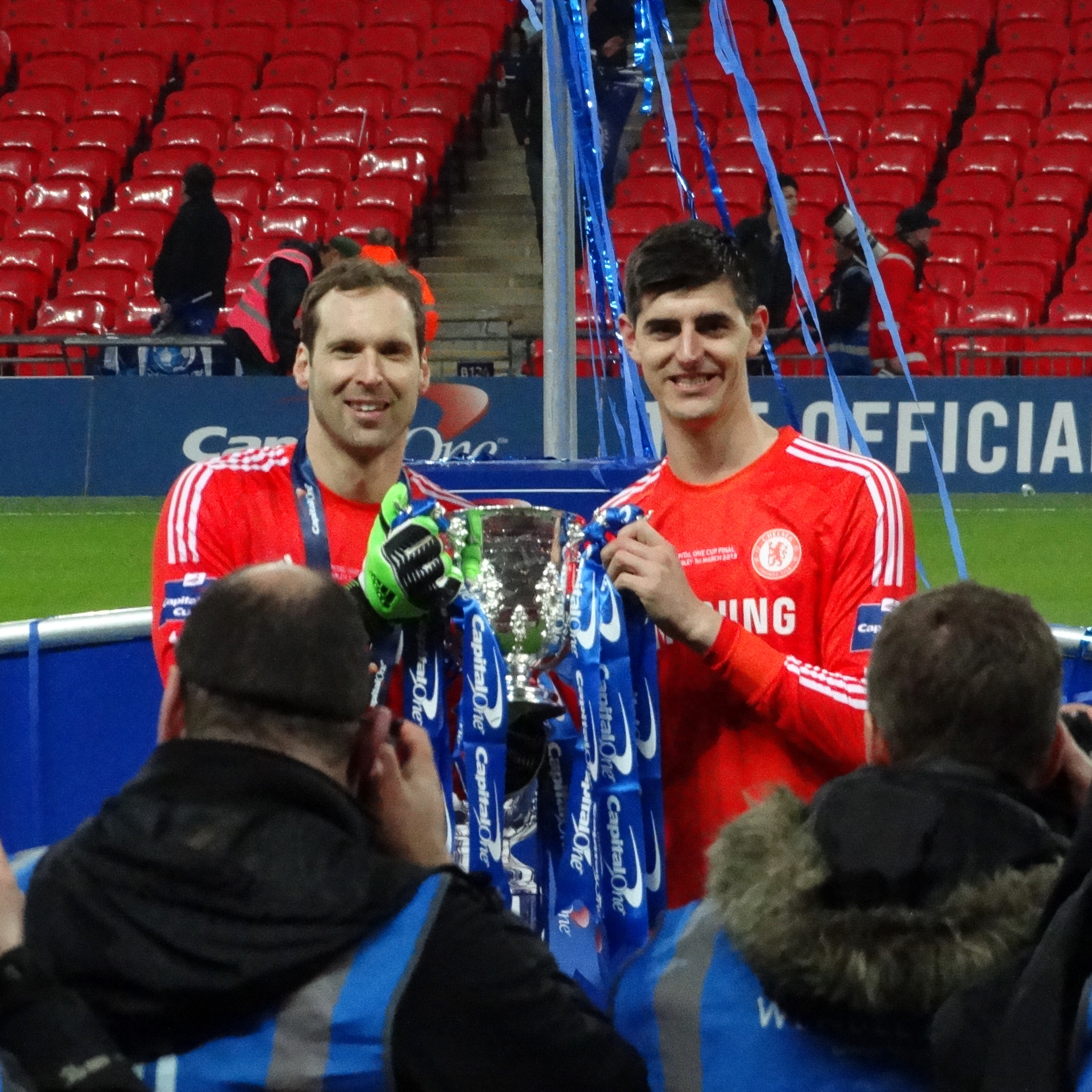 Chelsea 2 Spurs 0 Capital One Cup winners 2015